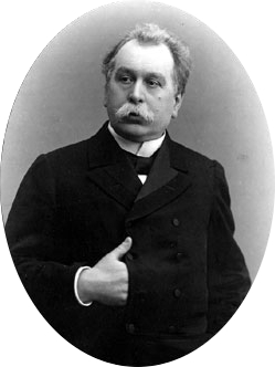 Vyacheslav Konstantinovich von Plehve (1846 - 1904), Russian Minister of the Interior of Russia from 1902 till 1904; assasinated